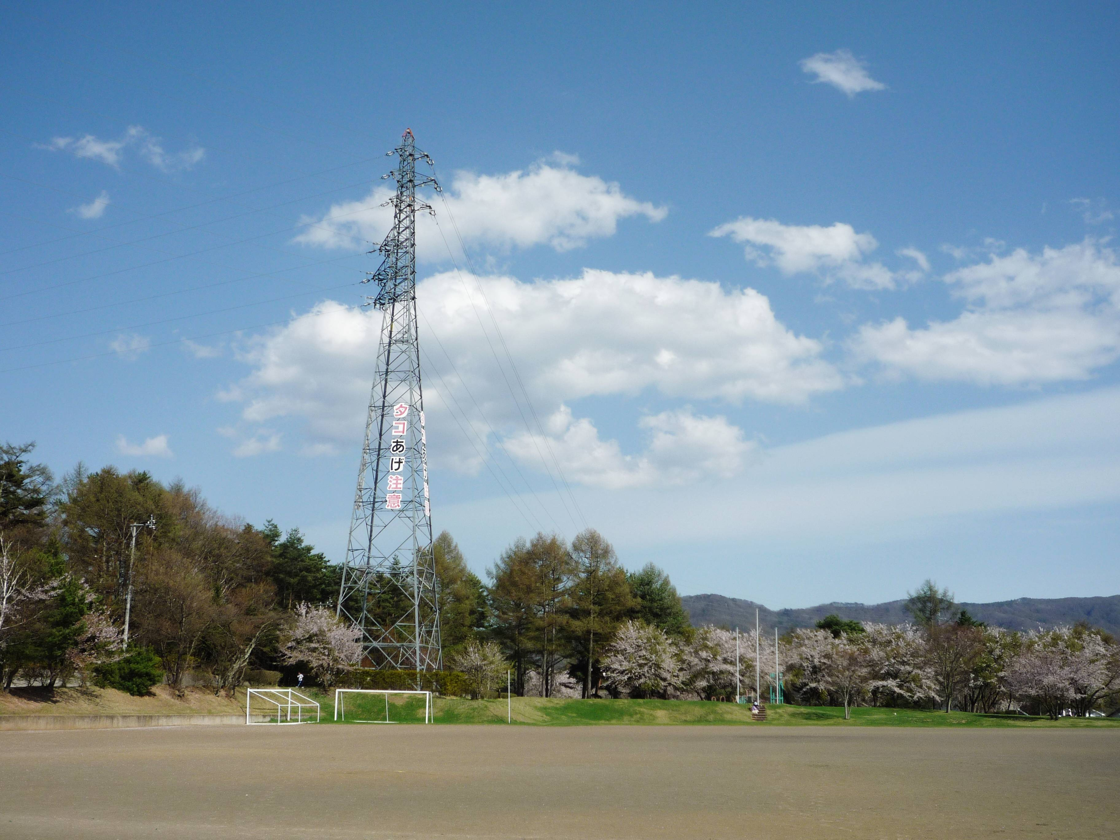 Sesso Park (Miyota, Nagano).